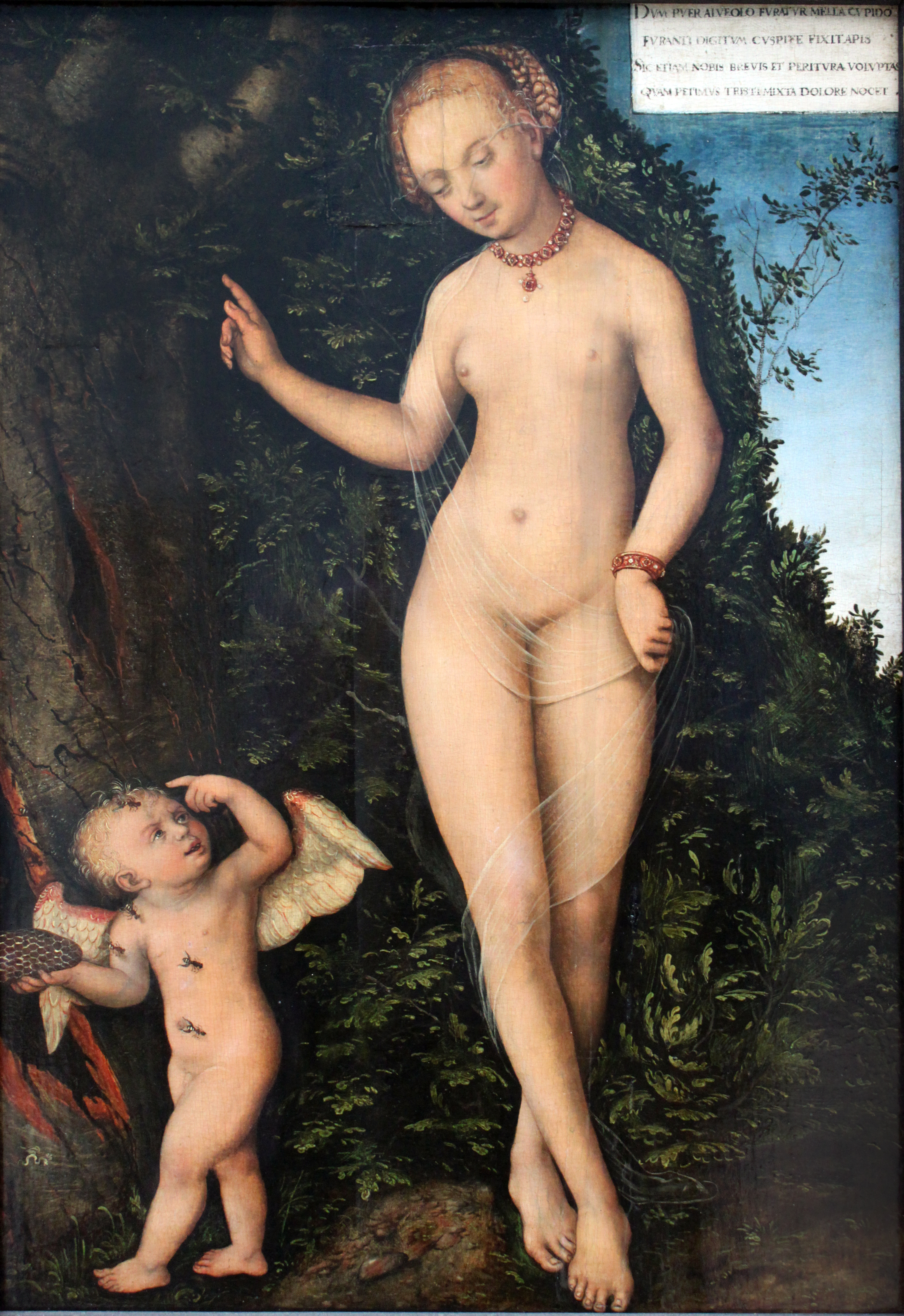 Venus with Cupid as a Honey Thief against a Black Background. Painting on limewood. The girlish goddess of love with Cupid is a typical Cranach motif. Venus’ stance reveals how the artist returned to 15th c. forms. She represents coquettish eroticism that finds its expression in her direct gaze and transparent veil